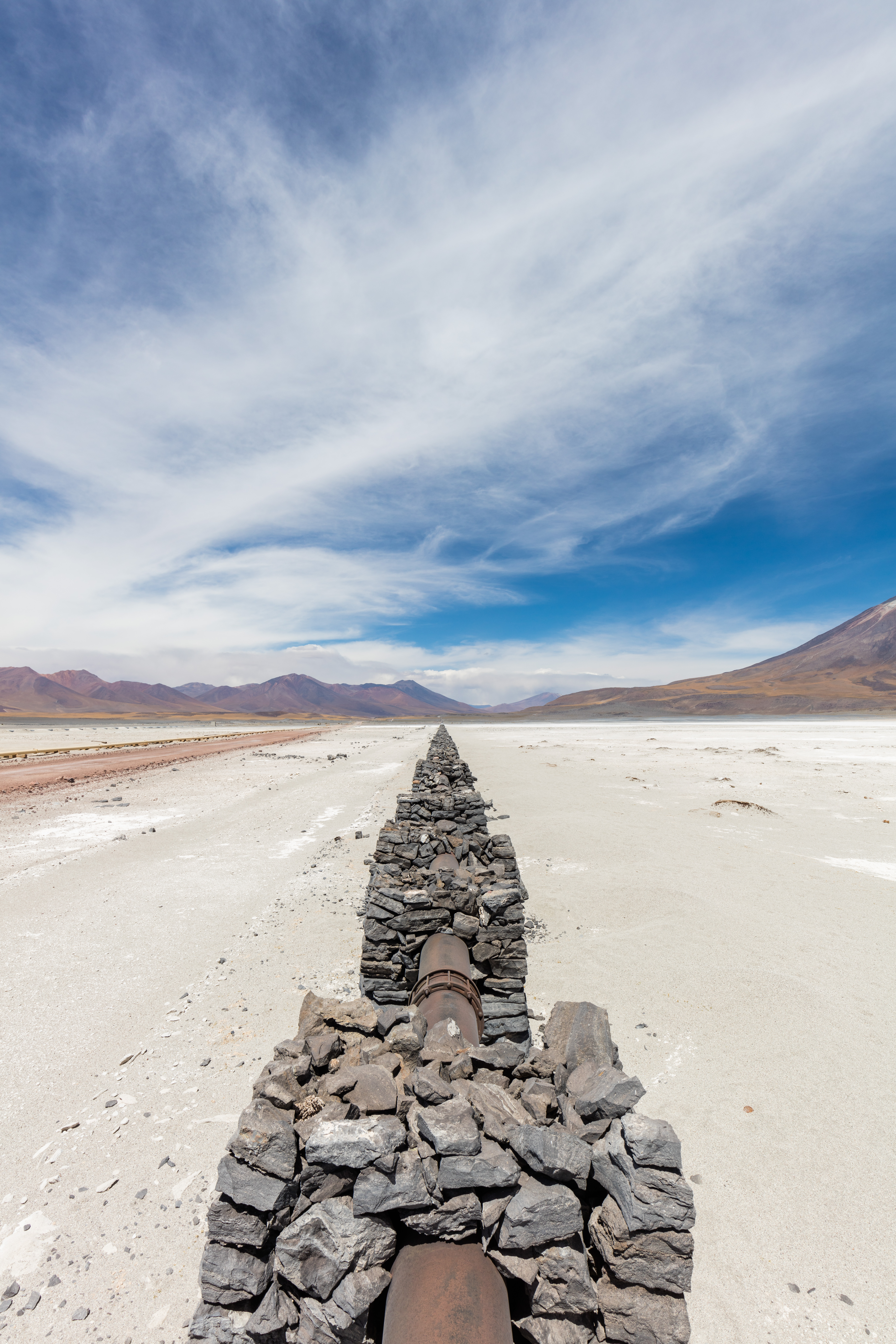 Gas pipeline next to the B-145, province of El Loa, Chile